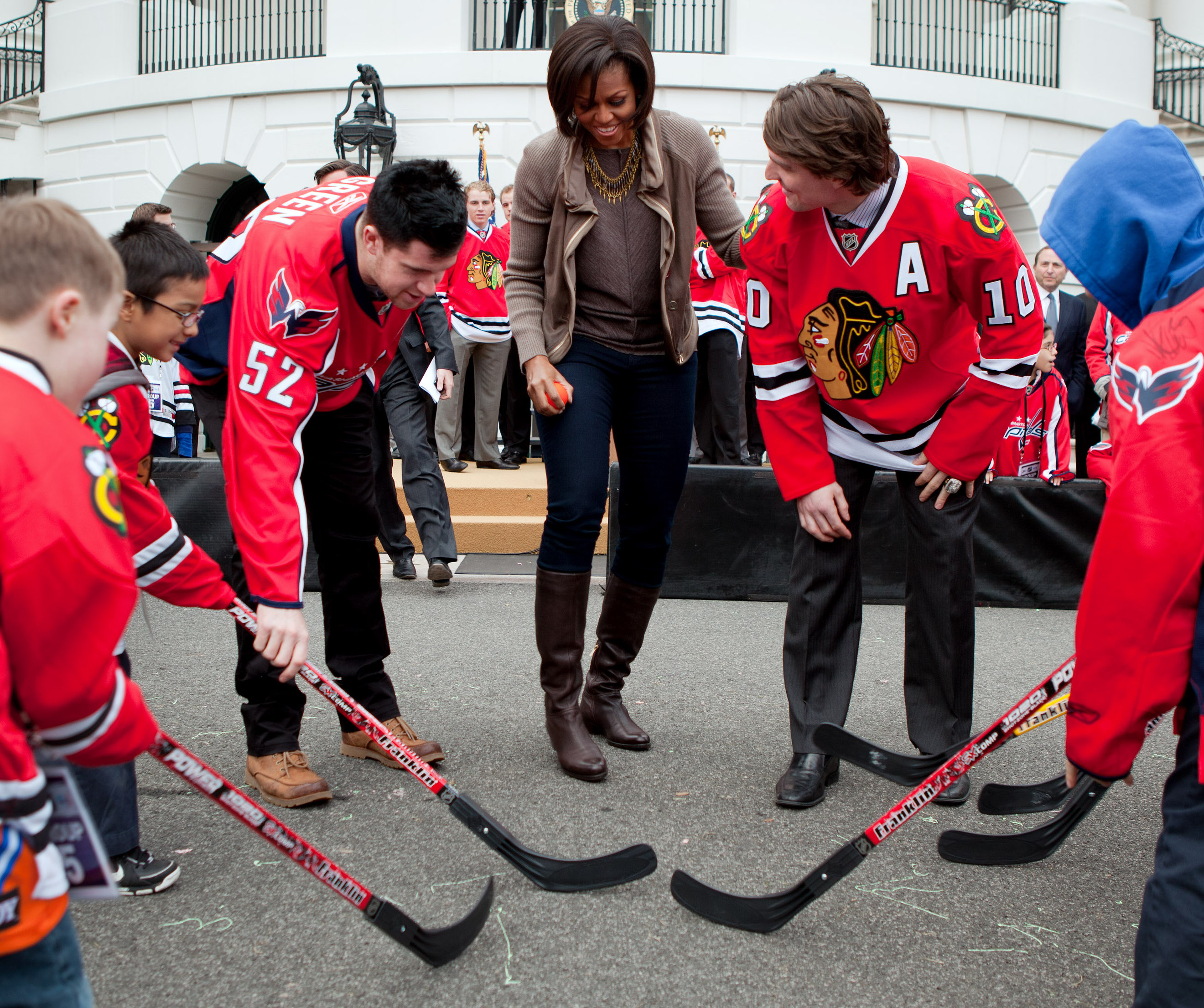 First Lady Michelle Obama participates in a "Let's Move!" and NHL partnership event with Chicago Blackhawks and Washington Capitals players on the South Lawn of the White House, March 11, 2011. (Official White House Photo by Samantha Appleton)